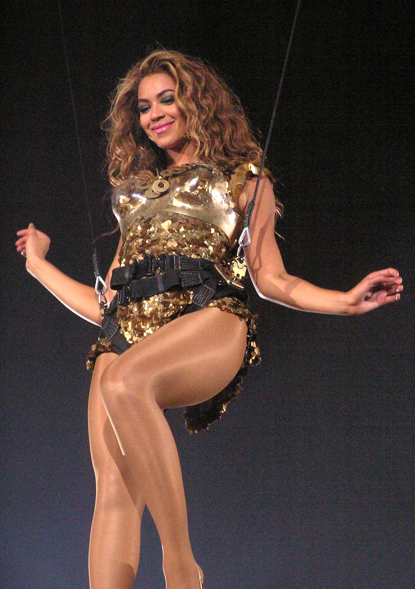 Beyoncé Newcastle 2009